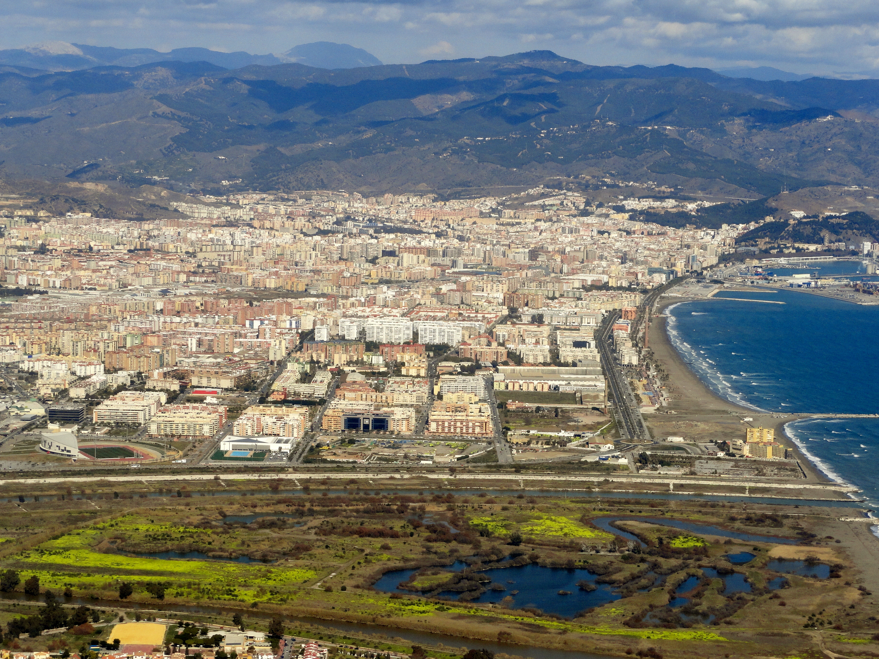 West Málaga and Guadalhorce River mouth